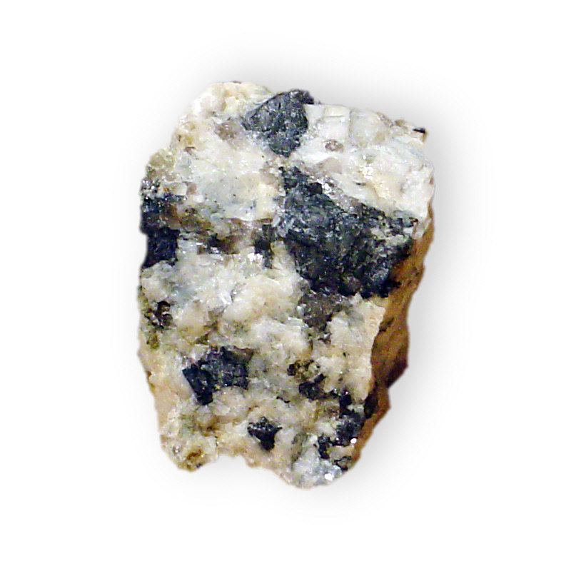 These mineral images are free to use how you wish.